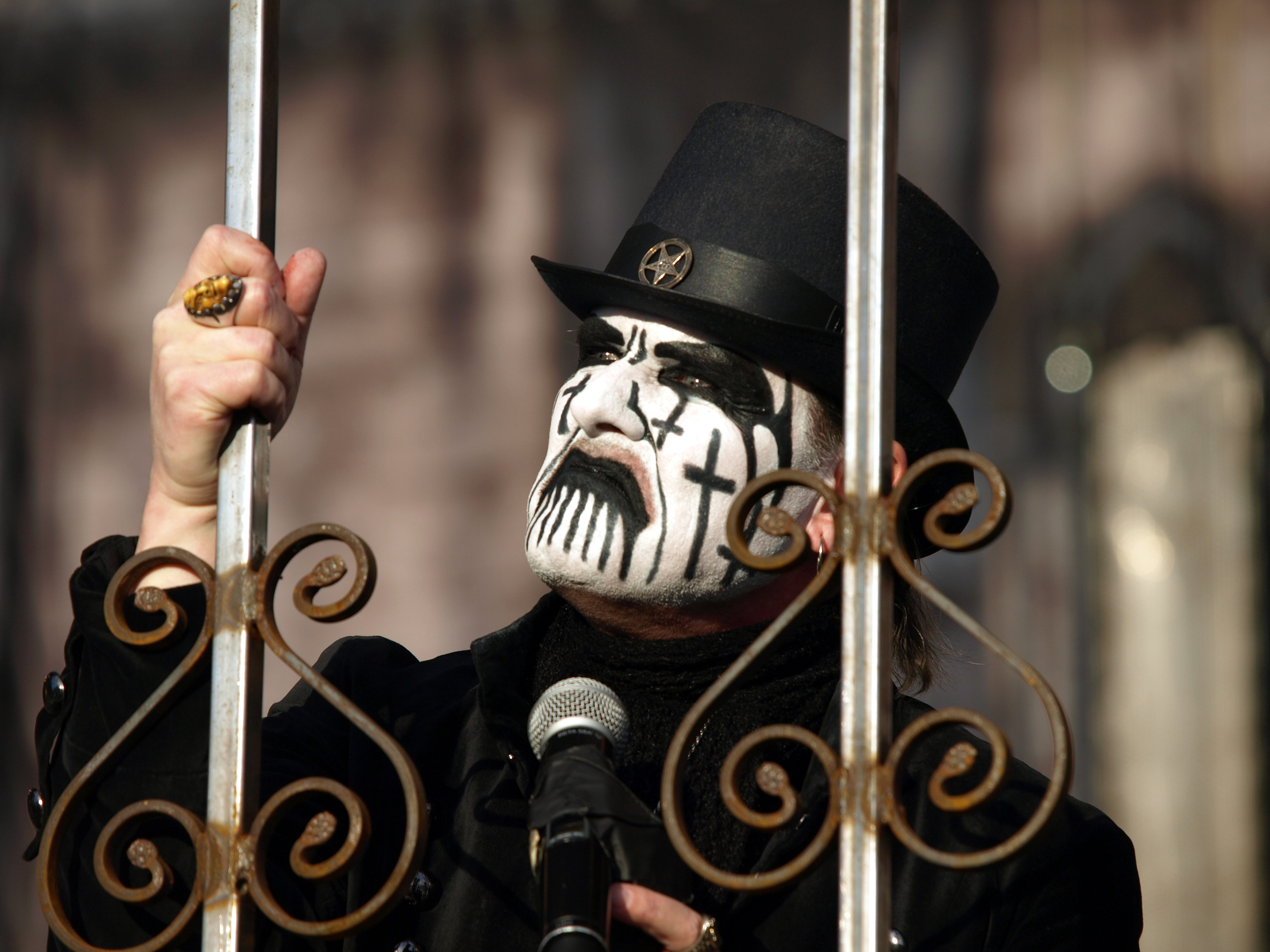 King Diamond and his band live at Tuska Open Air 2013